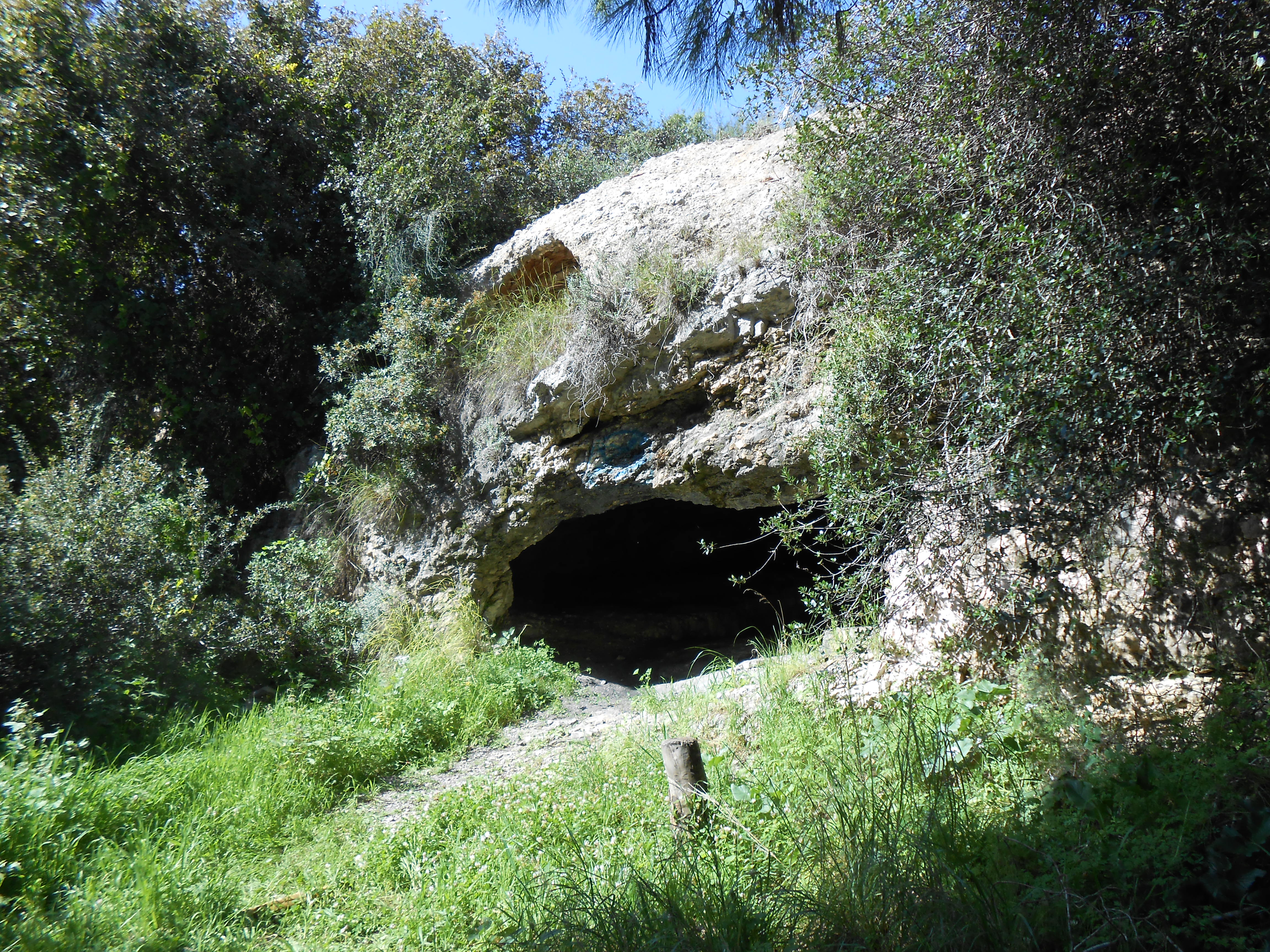 Karstic cave of wadi Lotem, Haifa, Israel.